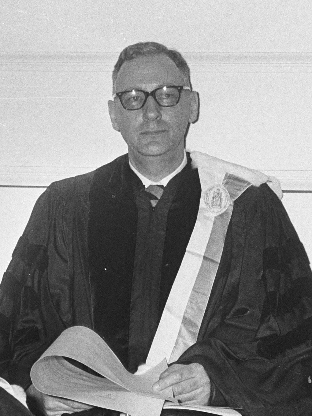 Dutch/American economist Tjalling Koopmans receives honorary doctorate from Catholic University Leuven (Belgium), Seal of Leuven University is visible on Koopmans' left shoulder. Date: 2 Febr. 1967. Image cropped from original at Nationaal Archief NL, in Commons: VisserTHooftKoopmans1967